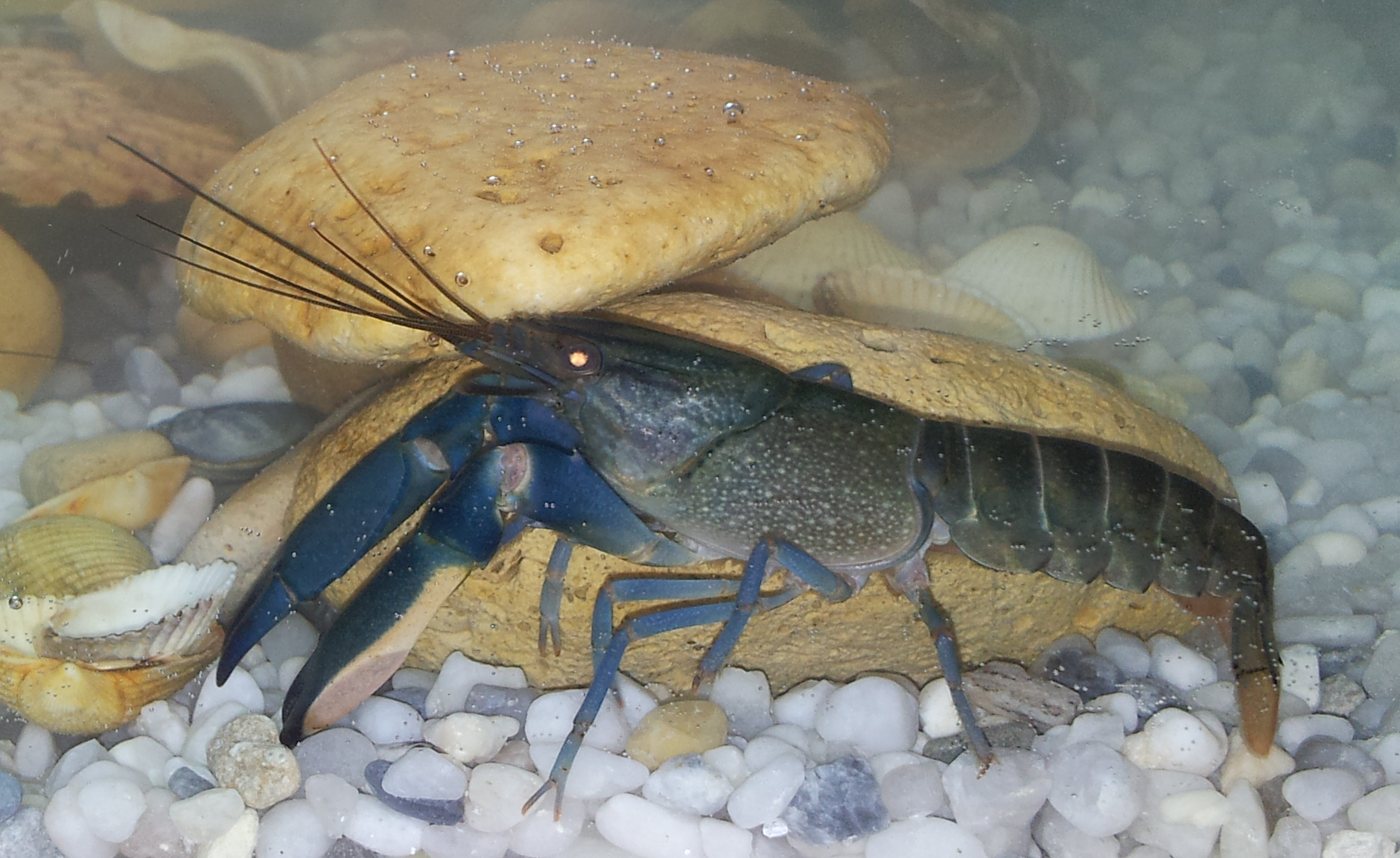 Blue crayfish (Cherax boesemani), 'Blue moon' variety, in a private aquarium in Villeneuve d'Ascq.